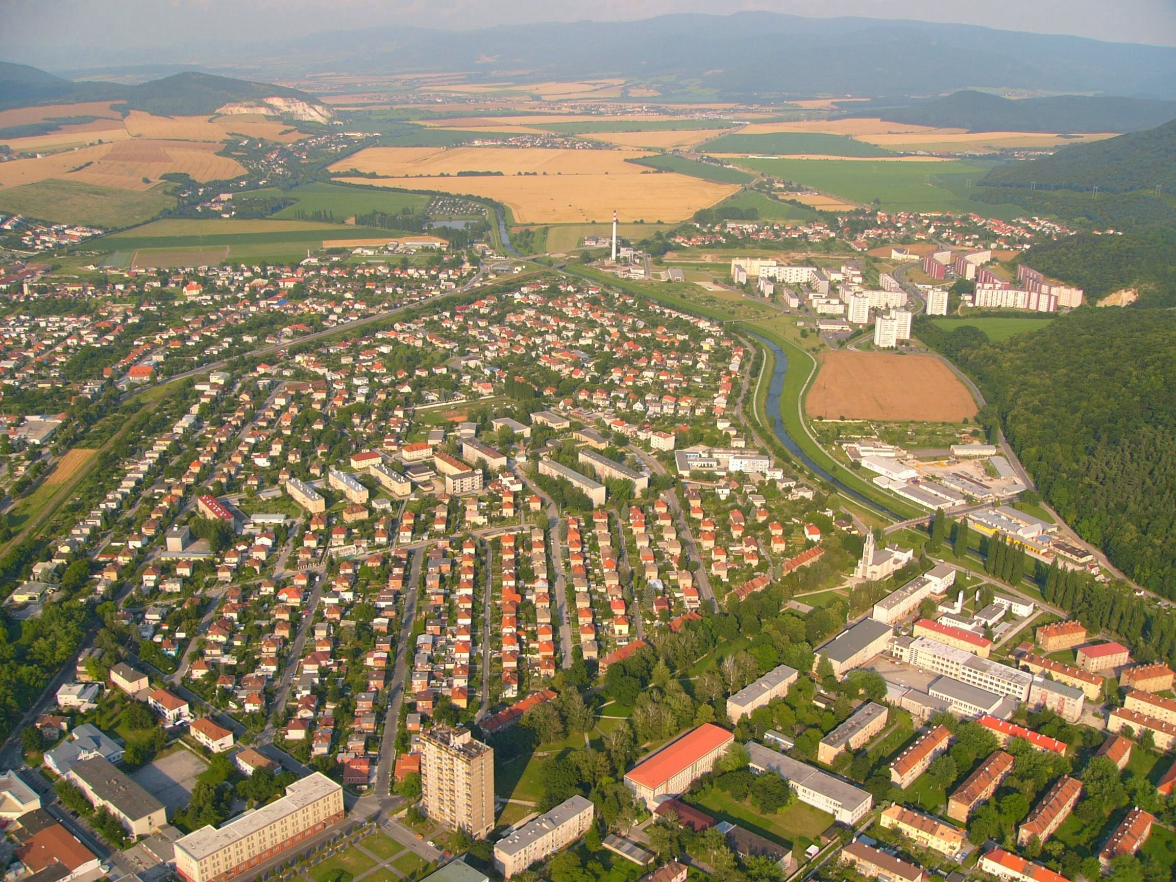 Author: Marián Zubák Partizánske, view to the East - old part of town, ?ipok and ?imonovany (photo made during glider flight over Partizánske)